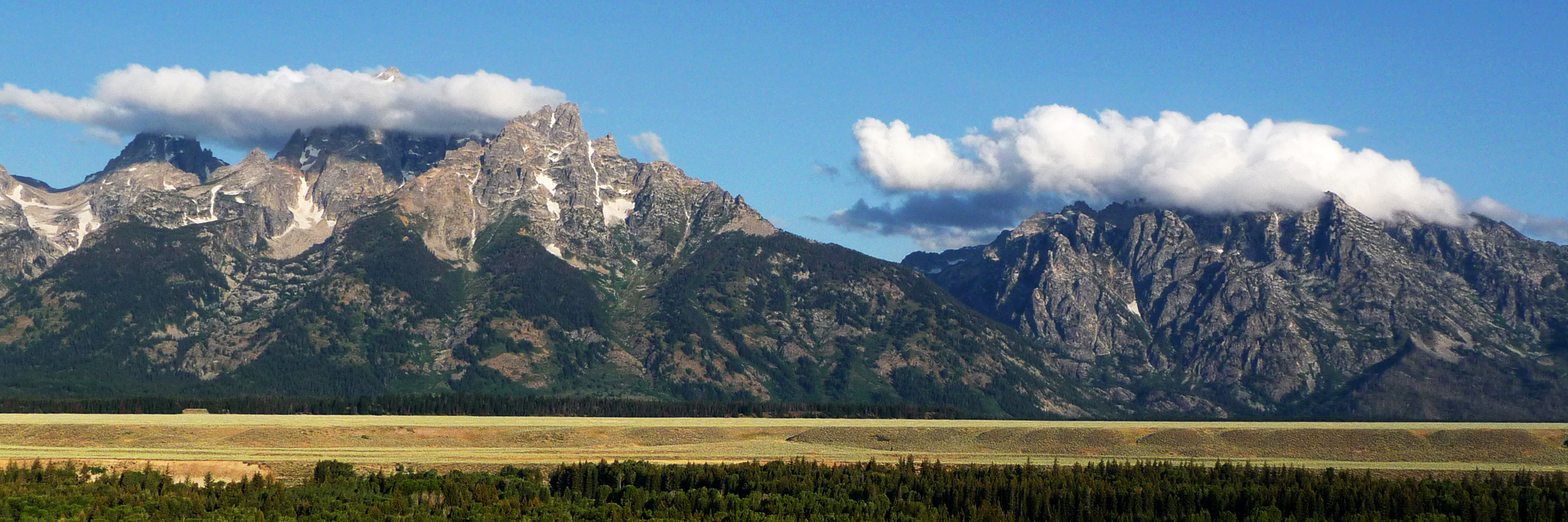 Clouds hanging over the Teton Range Location: Jackson Hole, WY Credit: Justin Shoemaker Photo Contest Entry #86